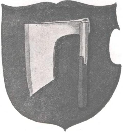 Coat of arms Topór from Stemmata polonica